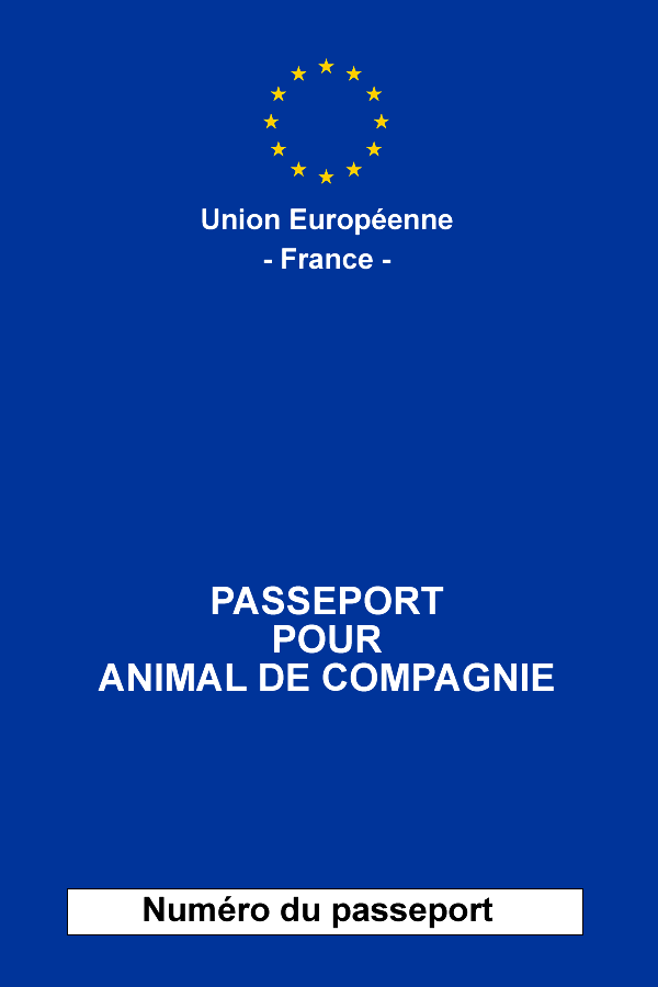 european passport for pets